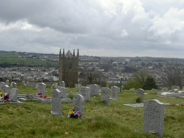 Phillack church taken from the cemetery